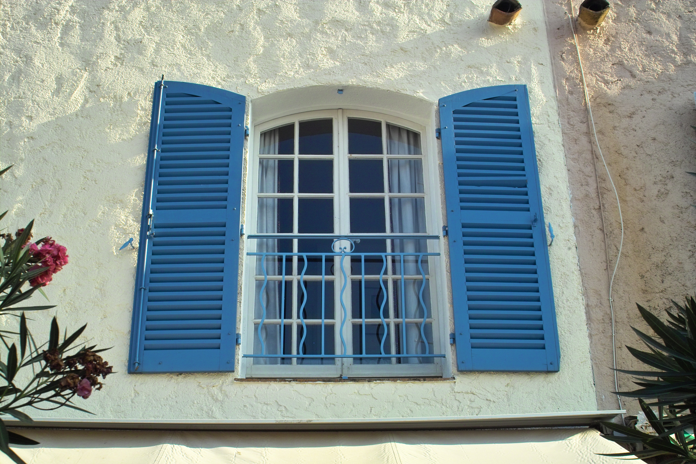 French window shutters